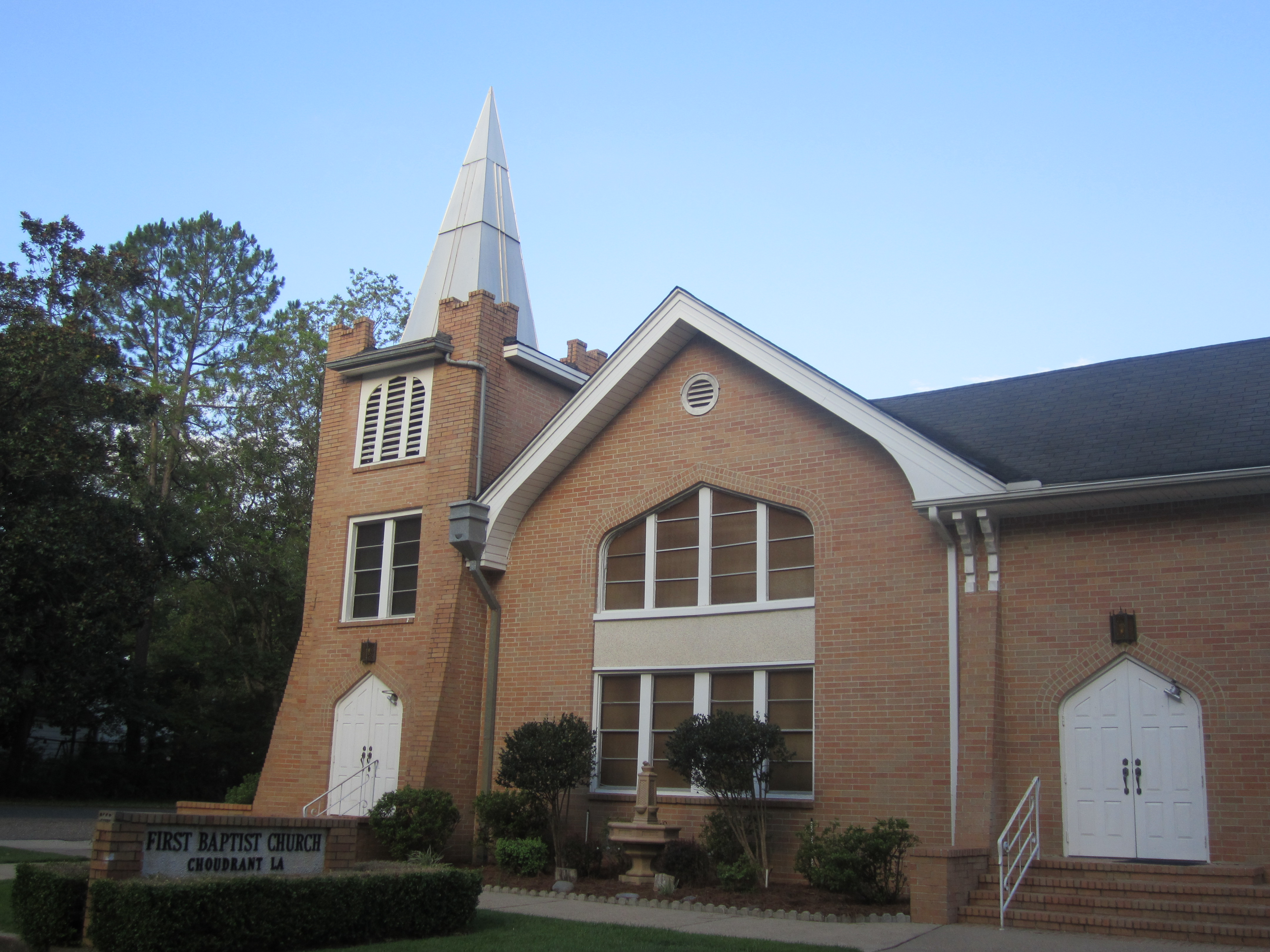 I took photo with Canon camera in Choudrant, LA.